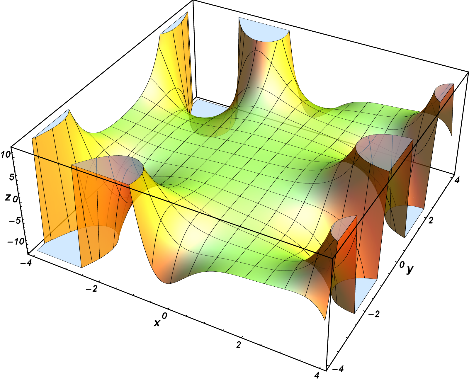 A surface plot of the real value of the Airy function: f ( x ) = ℜ [ B i ( x + i y ) ] {\displaystyle f(x)=\Re \left[\mathrm {Bi} (x+iy)\right]} x and y both run from -4 to 4.